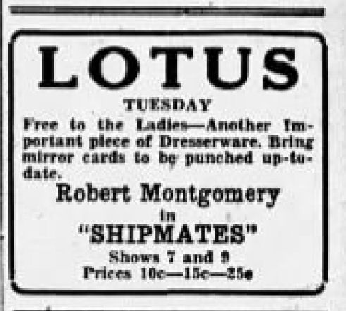 Lotus Theater advertisement for the American film Shipmates (1931) - 30 Jun. 1931 Morning Call, Allentown PA